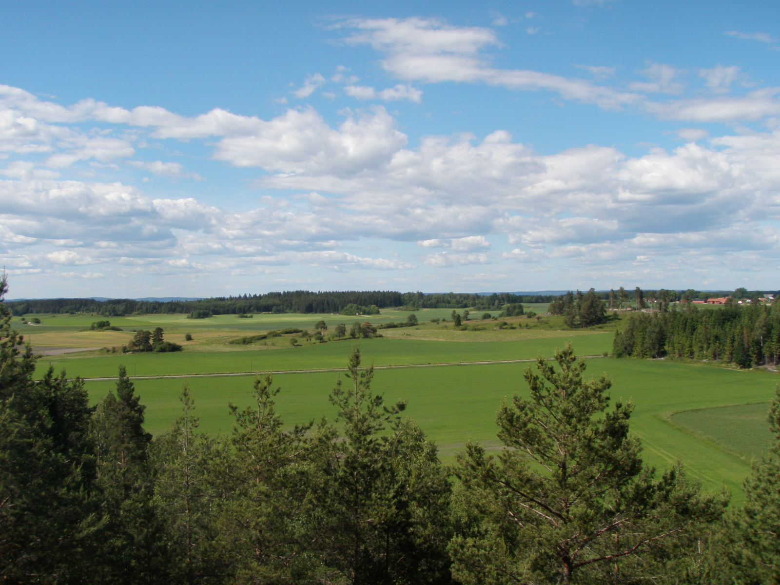 In Tingstad parish between Norrköping and Söderköping is one of the most prominent hill forts in the region of Östergötland. It has partly been investigated archaeologically by Bror Schnittger in summer 1909, when it was found cultural layers that suggested prolonged and continuous activity on the site. There were particular bargains imported from the continent in the form of a small decorated glass cups and glass fragments, a spiral-wrapped gold (guldten in Swedish) and more everyday items related to agriculture. Schnittger dating the hill fort to the Roman Iron Age.